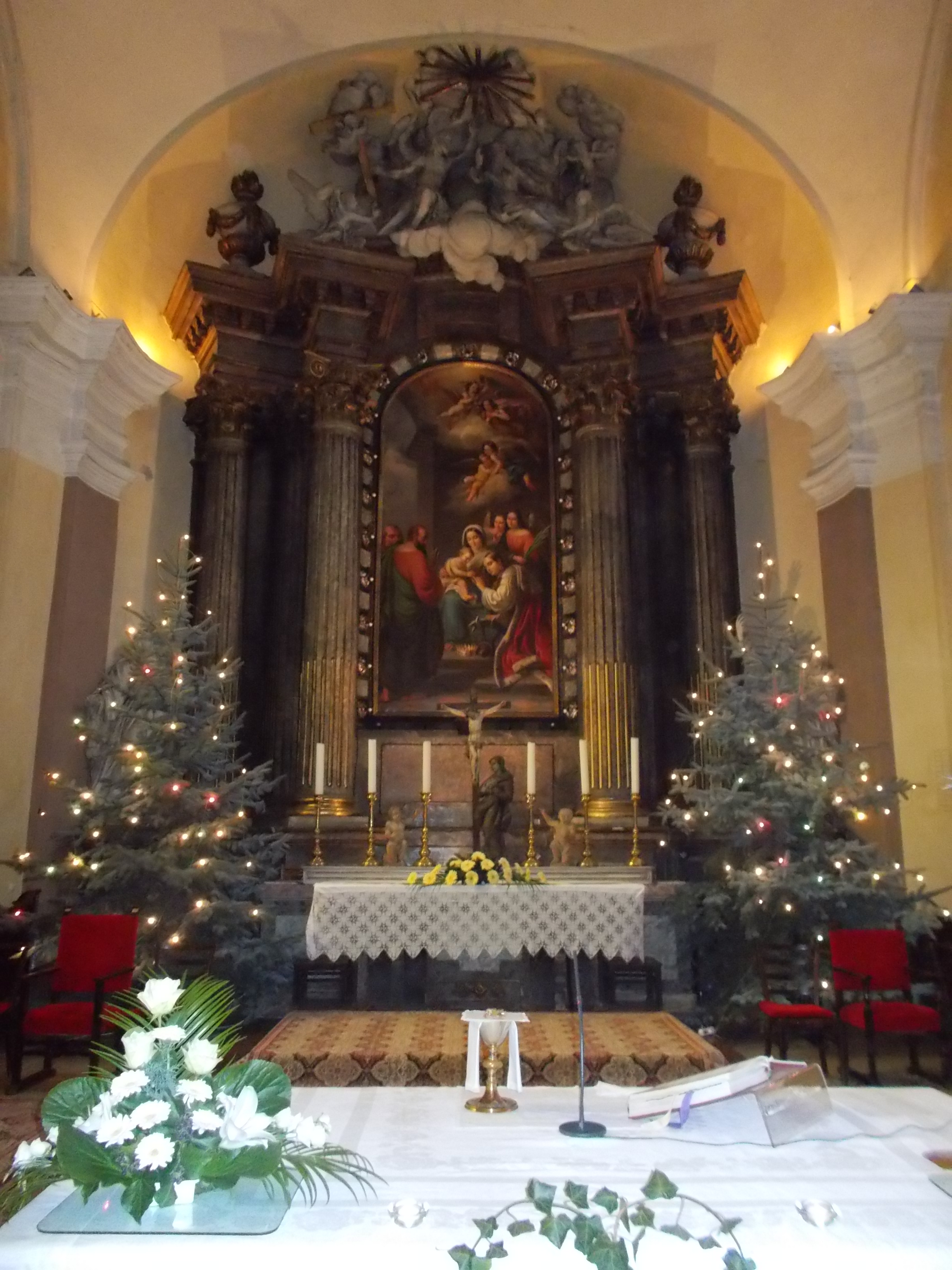 Saint Catherine Church in Tabán, Budapest District I. A Baroque Eclectic church built in 1728 by Keresztély Obergruber. Main altar (József Danko, Péter Bauer, 1812); The altarpiece of main altar shows the Engagement of St. Catherine of Alexandria (Jakab Marastoni, 1850); main altar's crucifix (18.Cent.);. - Attila Street, Street, Budapest